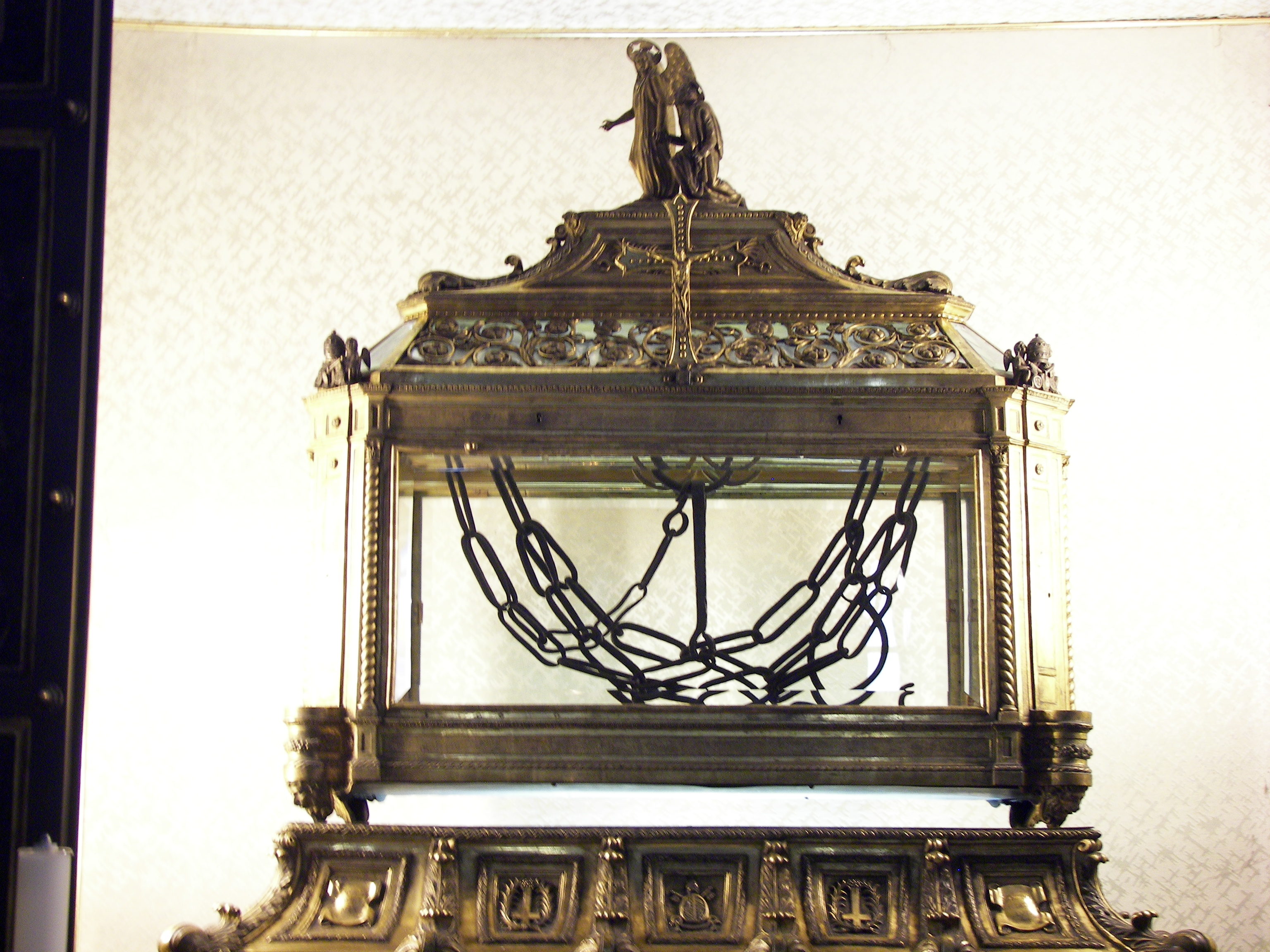 Chain relics in San Pietro in Vincoli in Rome.